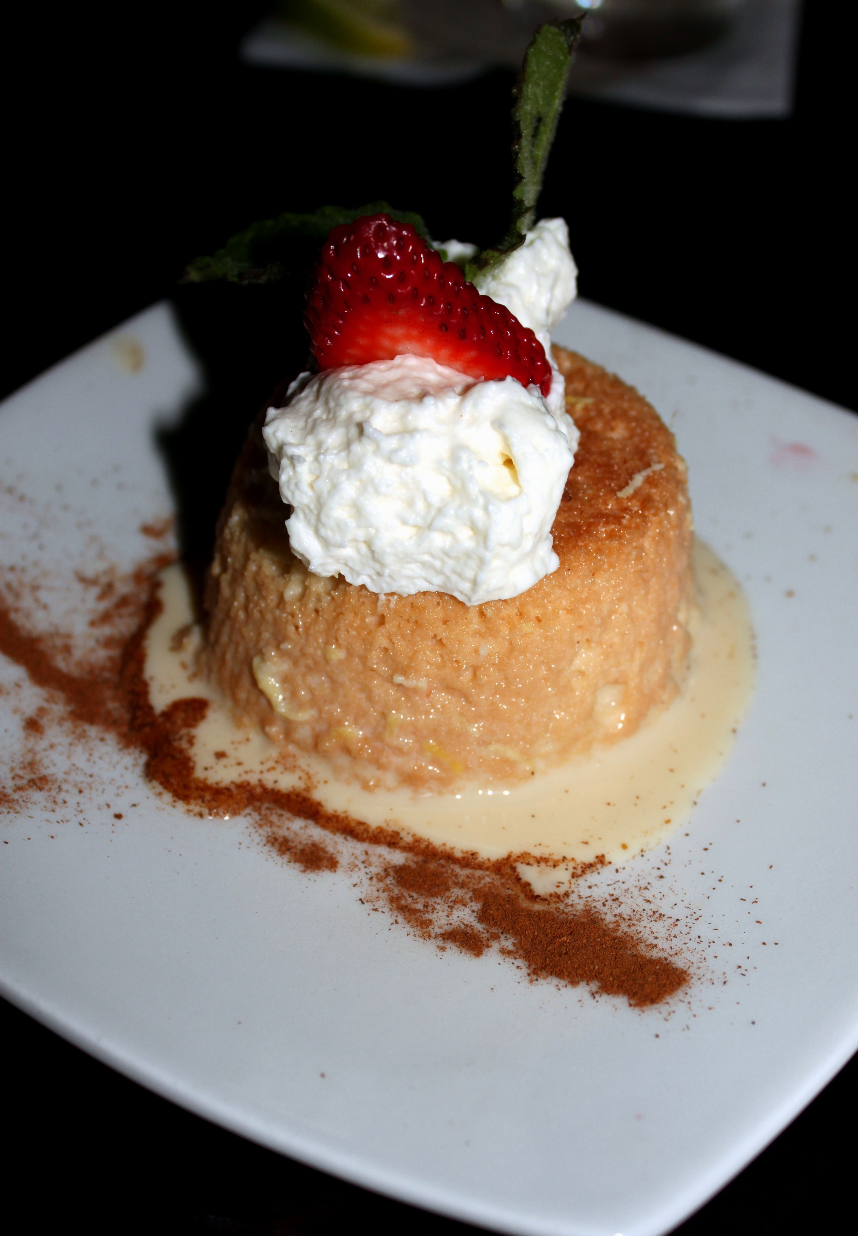 Old Town San Juan, Puerto Rico